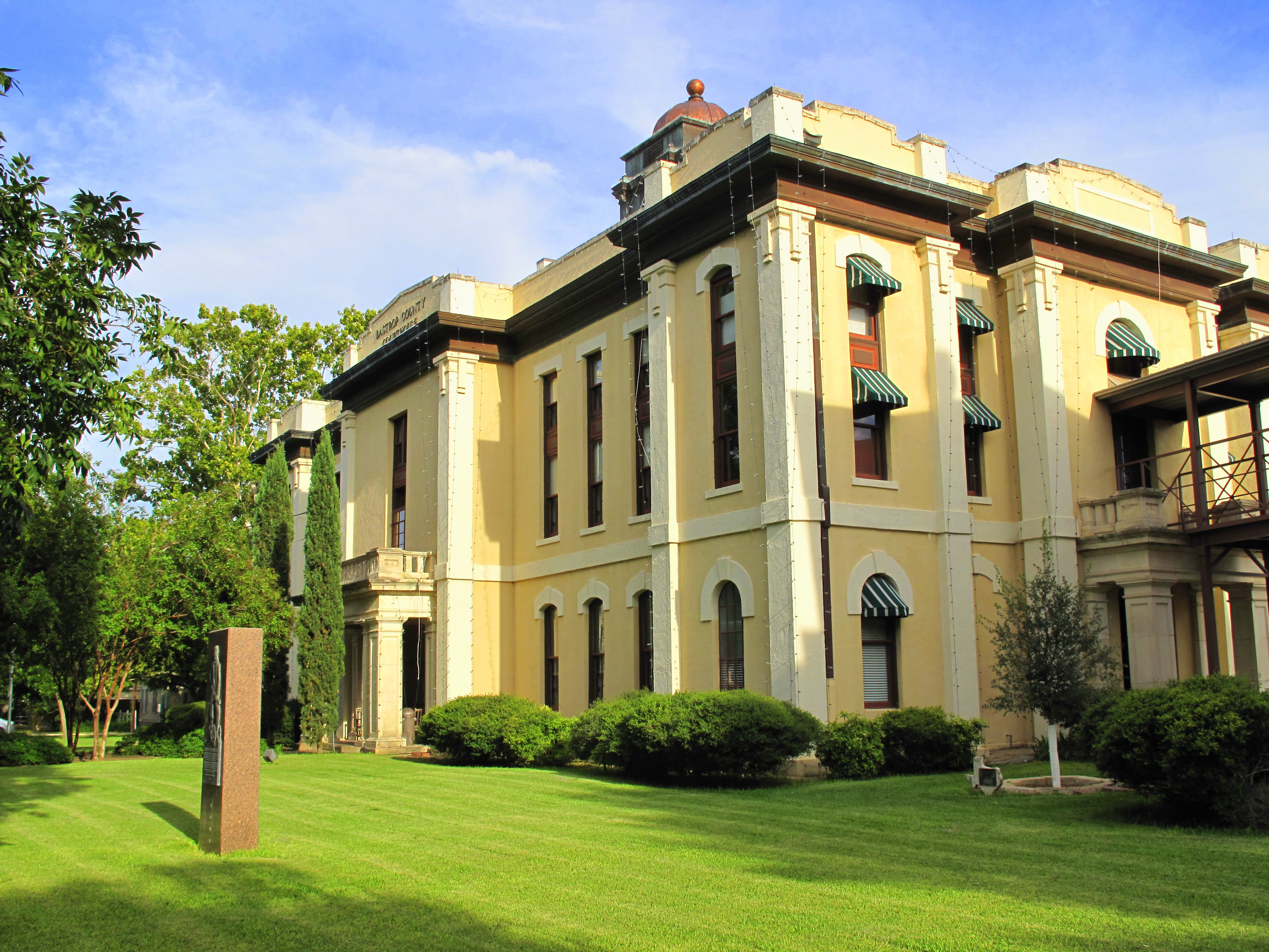 Bastrop County Courthouse in Bastrop, Texas, USA.